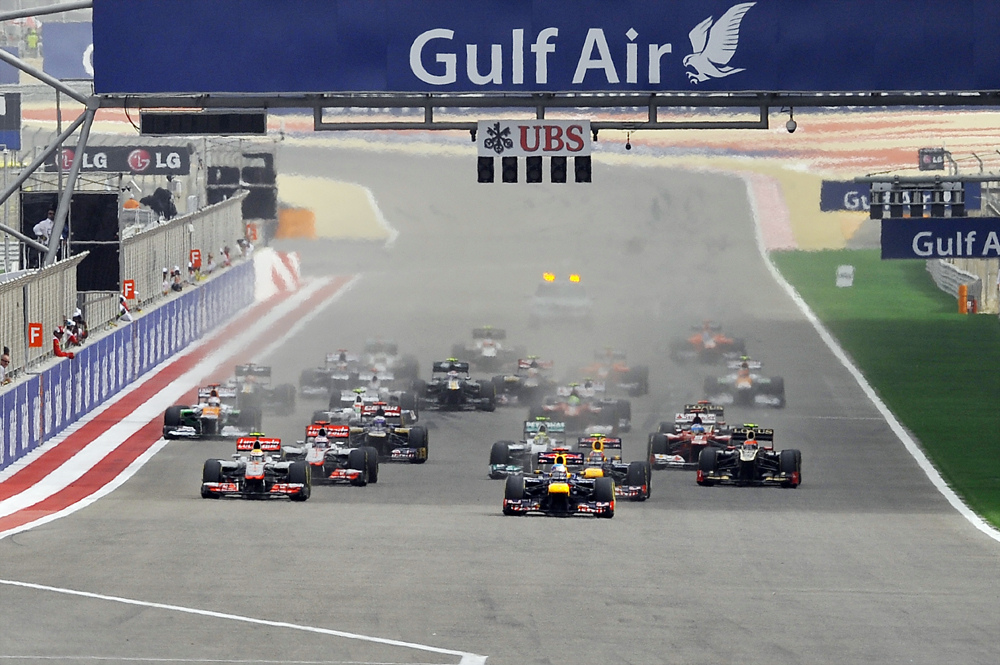 2012 Bahrain Grand Prix